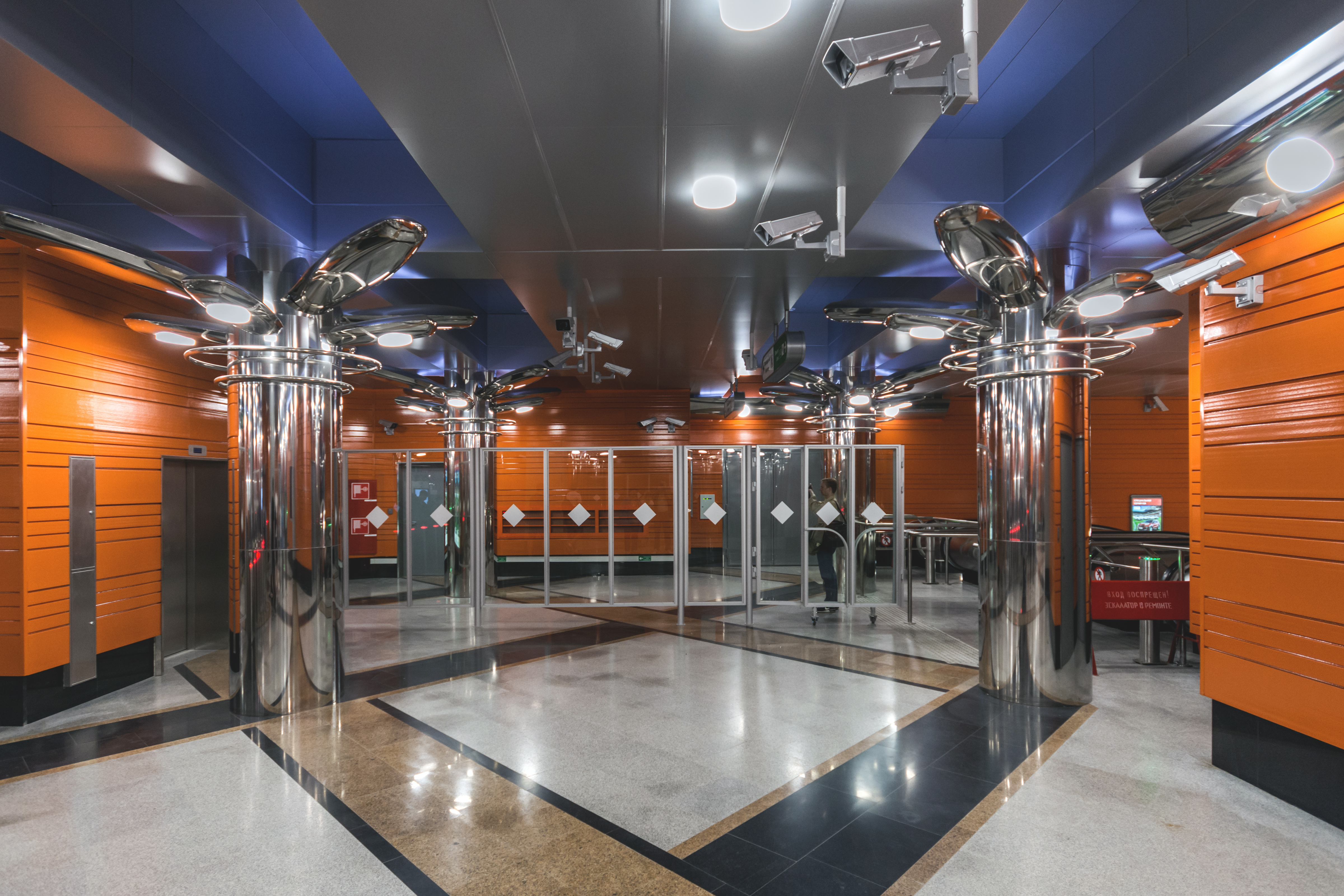 Begovaya station of Saint Petersburg Metro